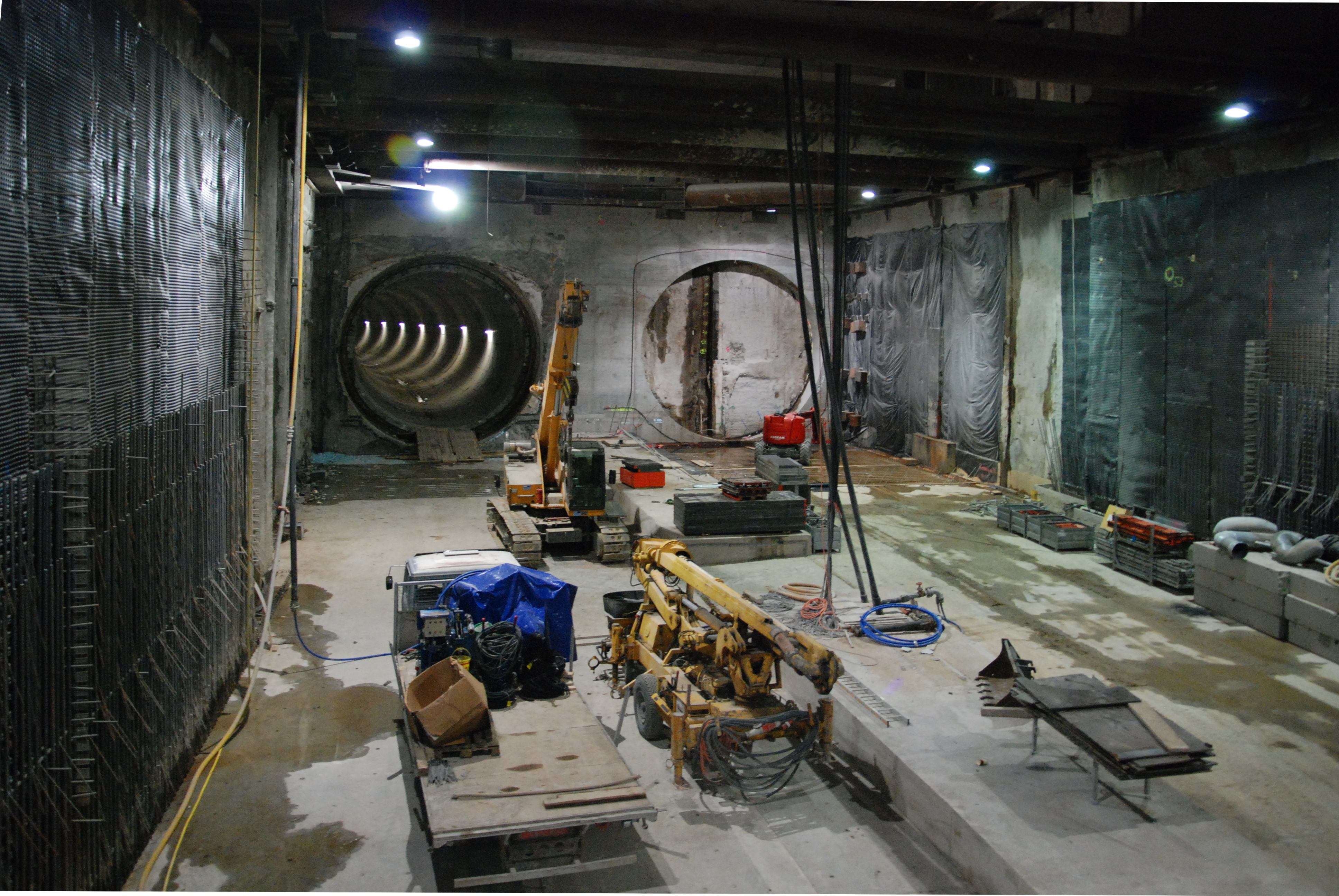 city tunnel Leipzig, station "Markt", May 2008